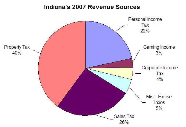 A pie chart demonstratiting Indiana's primary revenue sources in 2007 based on statistics on the government website